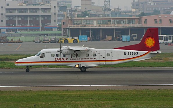 Dornier Do-228-212 "B-55563" from Daily Air in Kaohsiung.